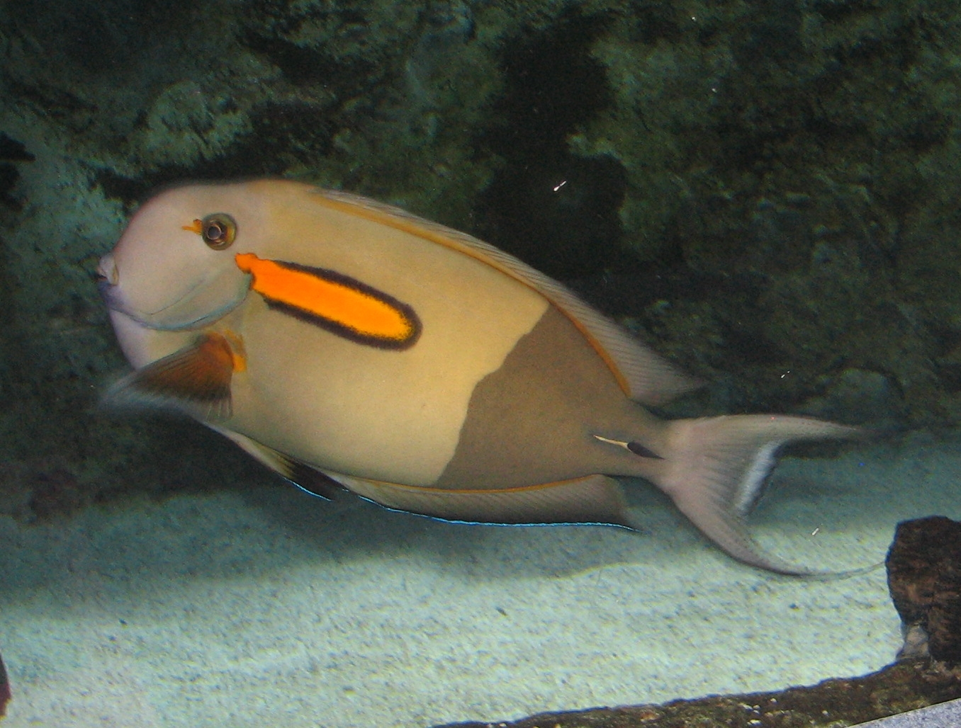 Orangespot Surgeonfish (Acanthurus olivaceus) at Newport Aquarium